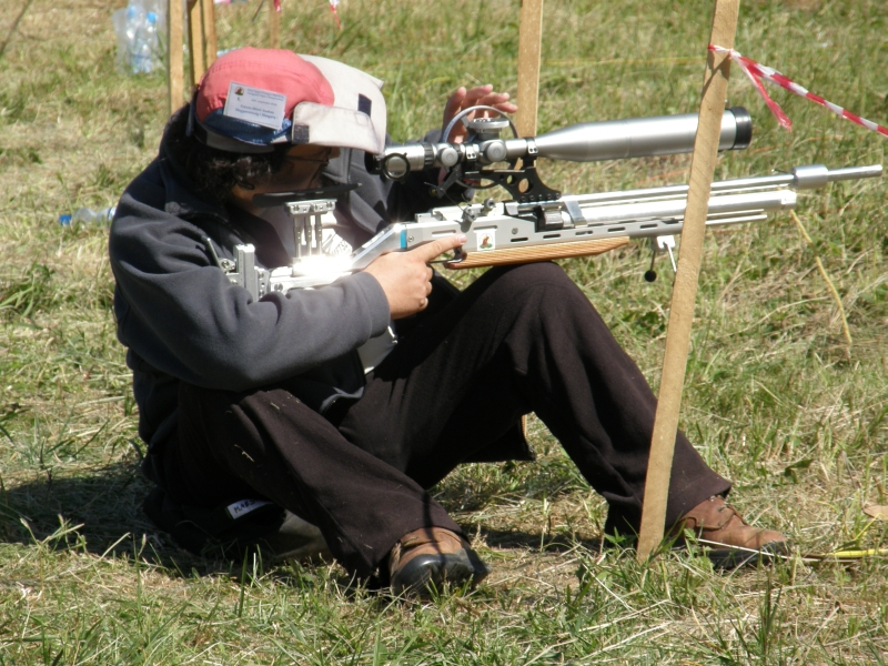 Shooter at the Hungarian Field Target Open 2009